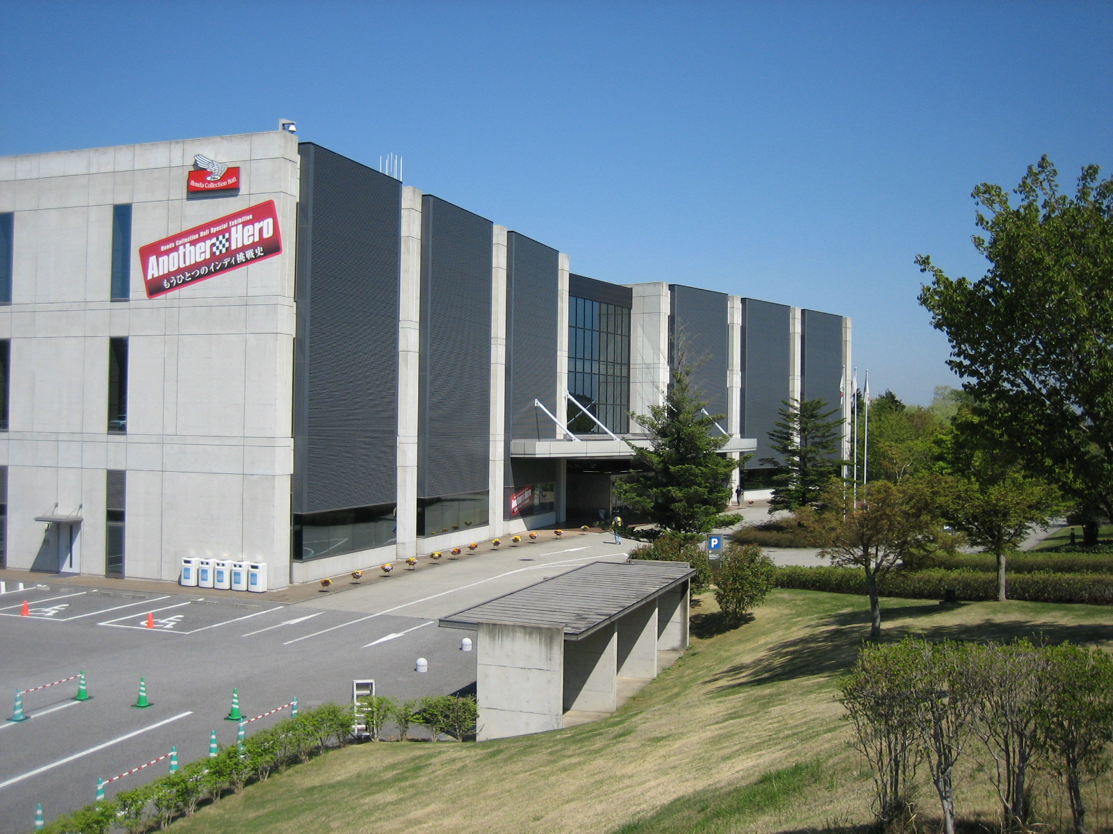 Honda Collection Hall